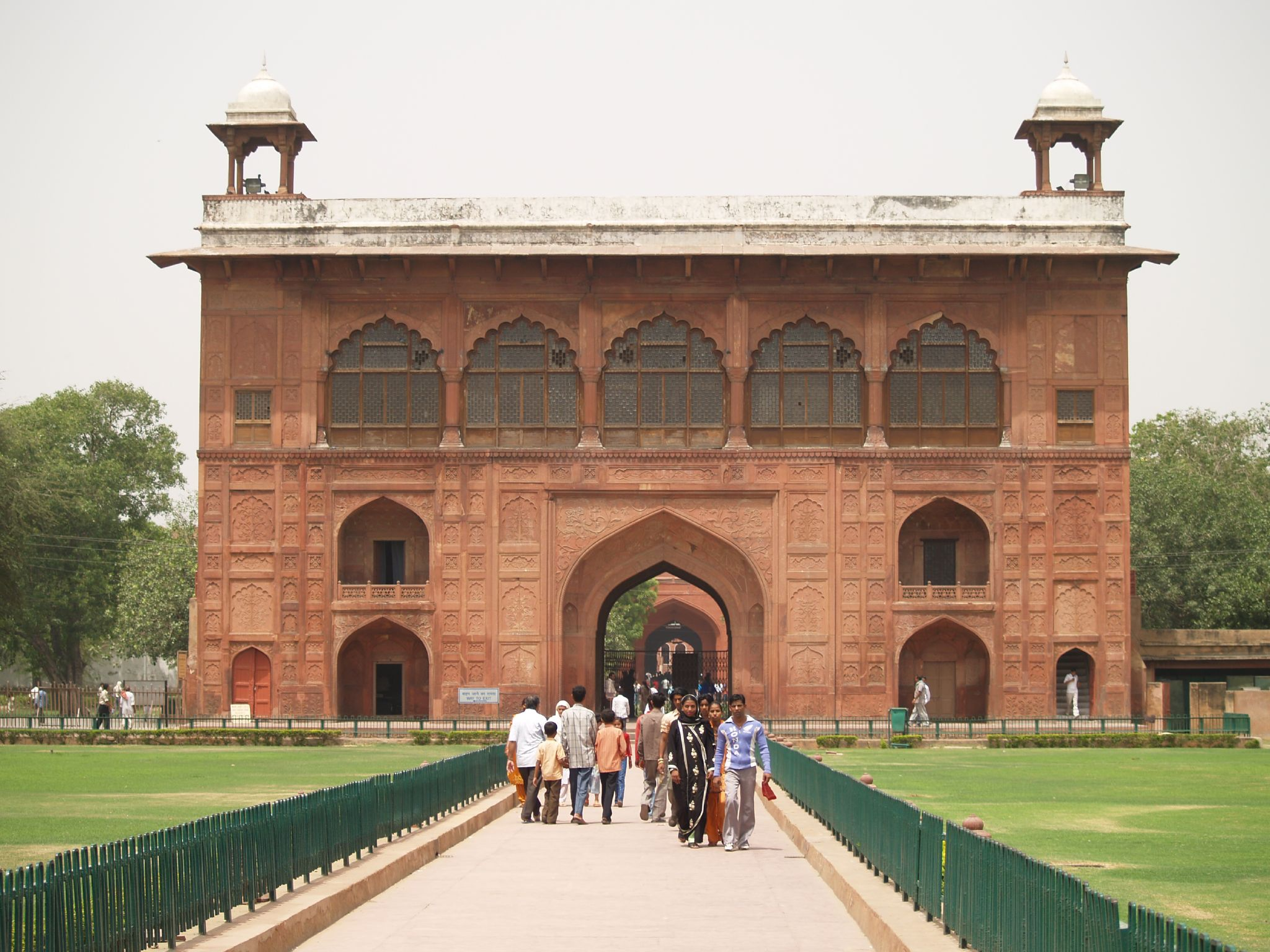 The Naqqar khana (drum house), now the Indian war memorial museum.